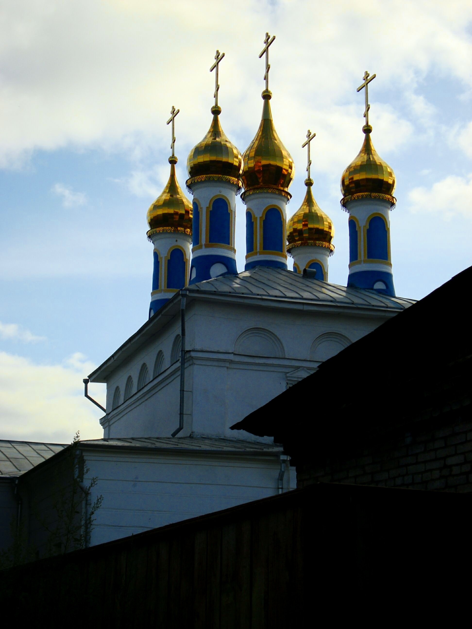 Pokrov town, Pokrovski cathedral